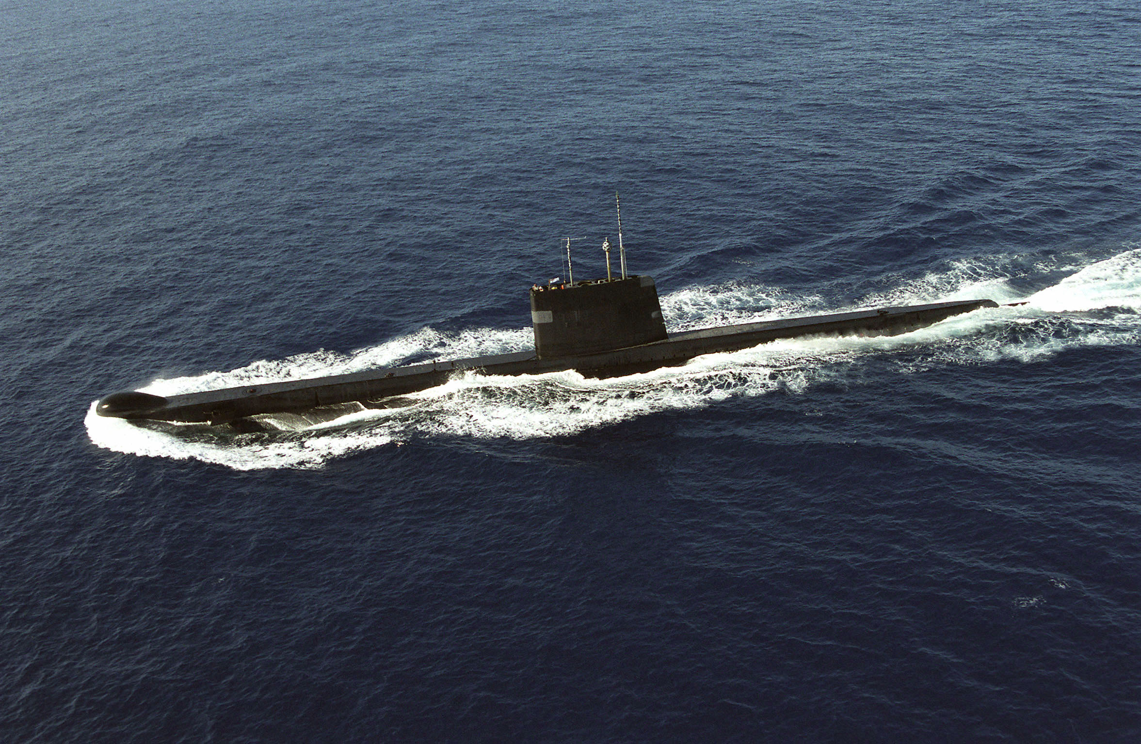 Port beam view of the Australian Navy submarine HMAS ONSLOW (SS-60) as she returns to Hawaii at the end of exercise RIMPAC '98.